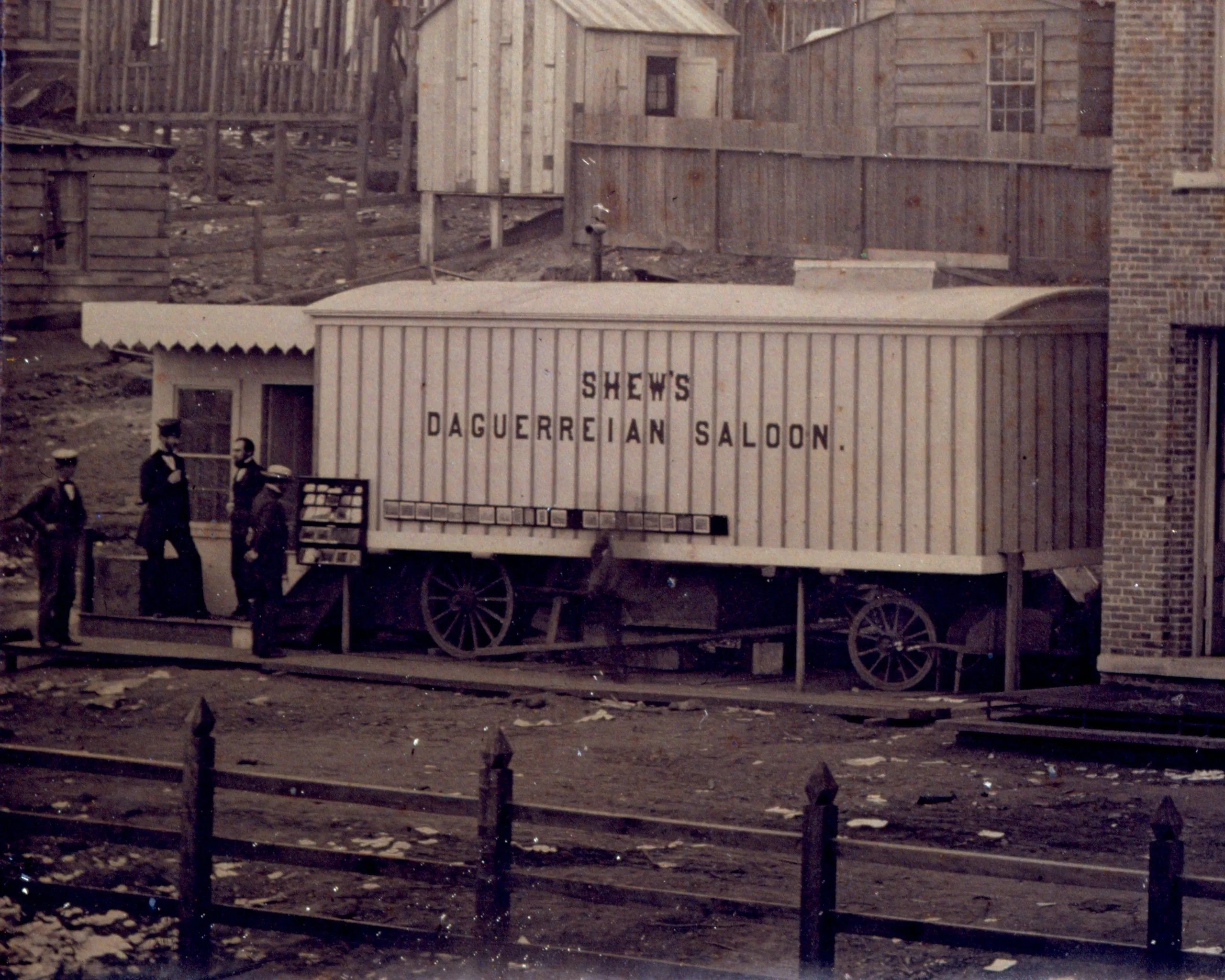 Shew's Daguerreian Saloon, San Francisco